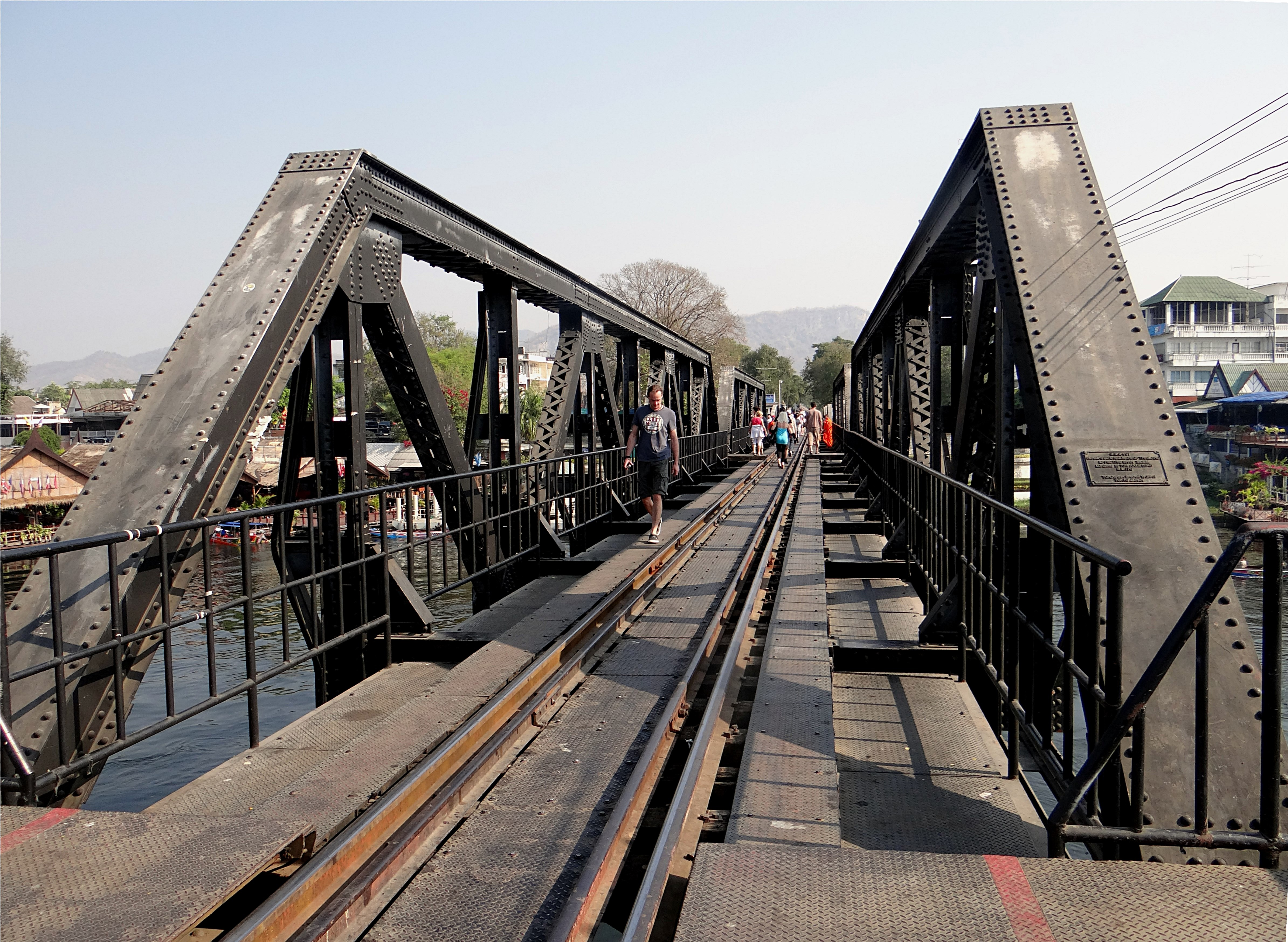 Railway bridge on the Siam-Burma online on the river Kwai Yai, Kanchanaburi, Thailand. Two central spans restored by the Japanese at the end of the 2nd World War, as the war damage.